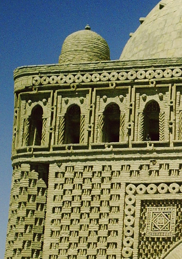 Detail of the Samanid Mausoleum in Bukhara, Uzbekistan